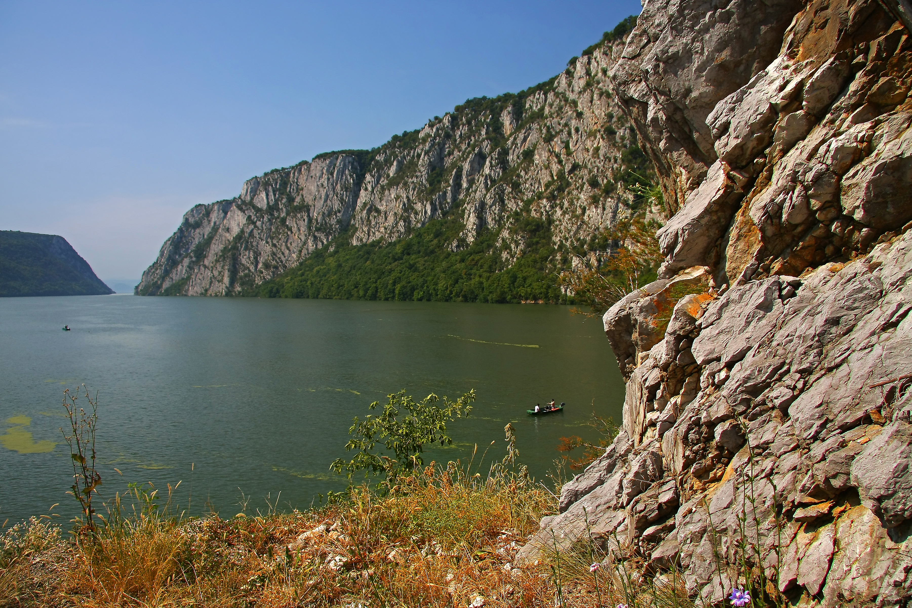 Ово је фотографија заштићеног природног добра у Србији под шифром: НП04 This is a a photo of a natural area in Serbia with ID: НП04 Đerdap